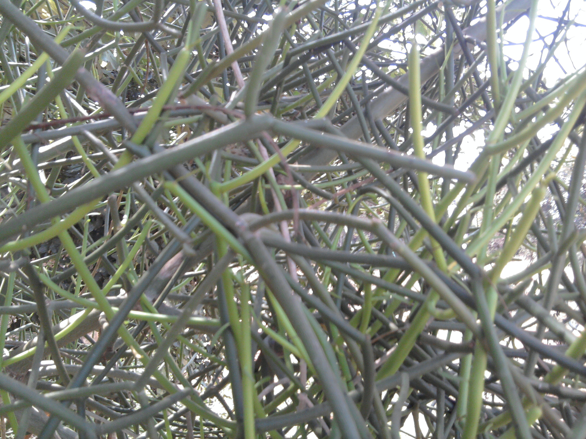 Euphorbia tirucalli